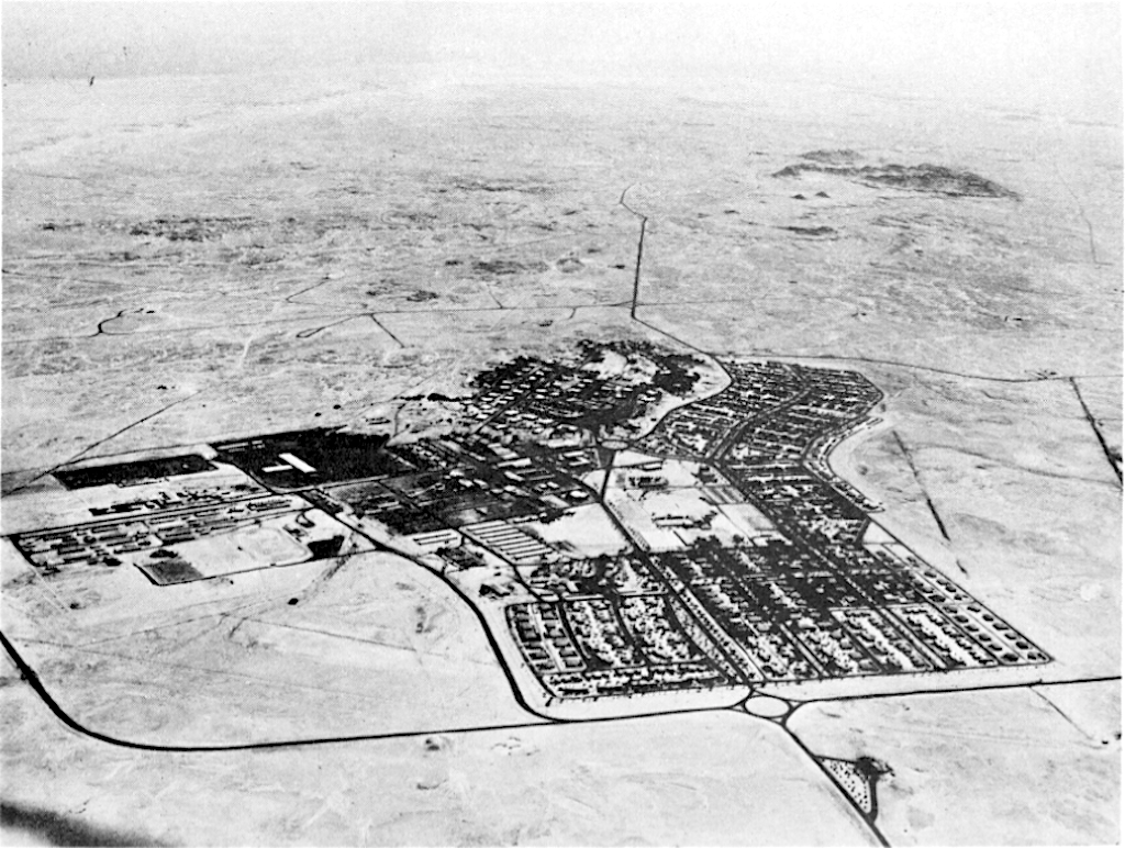 This work was first published in Bahrain and is now in the public domain because its copyright protection has expired by virtue of the Legislative Decree No. 10 of June 7, 1993 in respect of Copyright Law, enacted 21993 (details). The work meets one of the following criteria: It is an anonymous or pseudonymous work and 50 years have passed since the date of its publication It is a photographic, cinematographic or a work of applied art and at least fifty years have elapsed since the end of the year of its publication It is a work published for the first time after the author's death and at least fifty years have elapsed since the end of the year of its publication It is a work where intellectual properties belong to public or private corporate entities and at least fifty years have elapsed since the end of the year of its publication It is another type of work and more than fifty years have elapsed since the year of author's death It is one of "Court judgements passed by the law courts in various degrees and translations of such judgements, official documents such as texts of laws, Amiri Decrees, administrative orders, international treaties, their translations and all official documents." To uploader: Please provide where the image was first published and who created it. You must also include a United States public domain tag to indicate why this work is in the public domain in the United States.